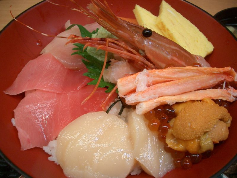 One of the best Chirashi sushi set so far... all good quality stuff in here. I even liked the sea urchin, it was extremely tasty!